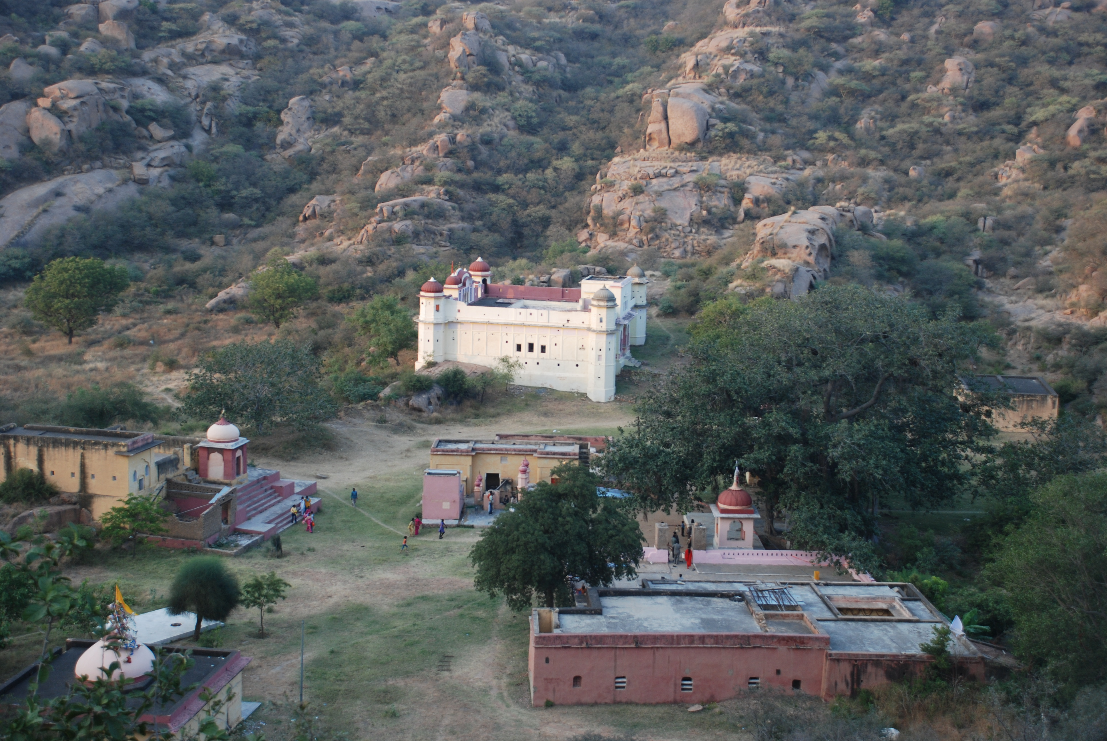 This is the view of Dhosi Hill Crater, showing various structures on the levelled surface.